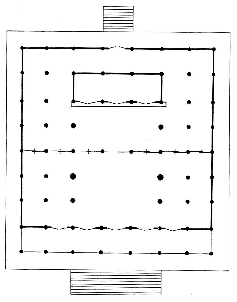 Layout of Kimpusen-ji